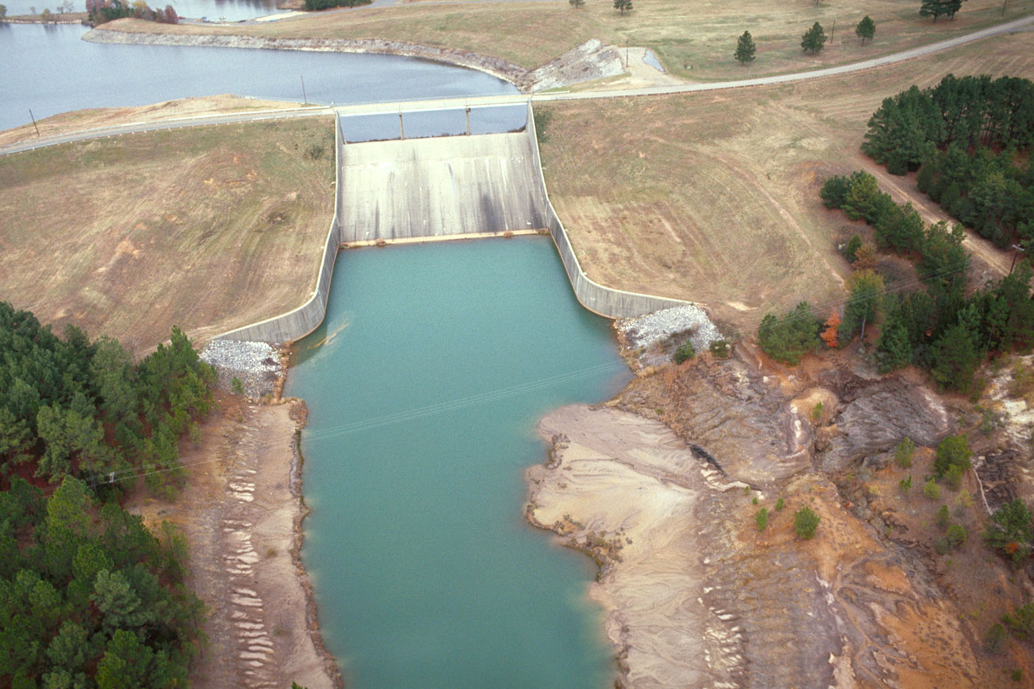 The spillway at Ferrells Bridge Dam, impounding Lake O’ the Pines on Big Cypress Bayou, Marion County, Texas, USA. The concrete-and-earthfill dam is over 2 miles (3.2 km) long and this picture shows only the spillway of the dam. The U.S. Army Corps of Engineers constructed the dam in 1951 for flood control and water supply. View is to the north. Coordinates: 32°45′5.32″N 94°29′50.79″W / 32.7514778°N 94.4974417°W